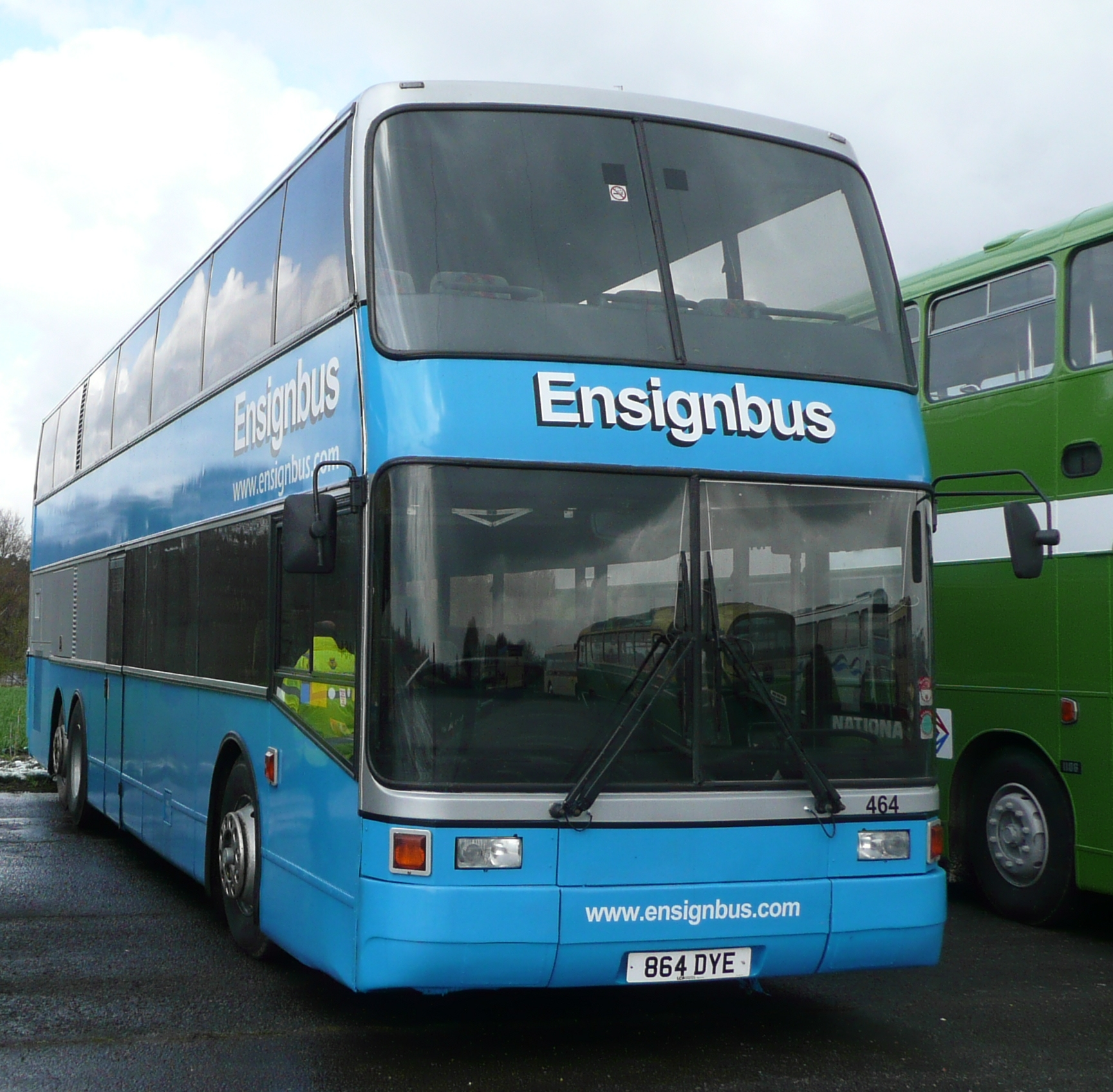 An Ensign coach at the 2008 Cobham Bus Rally. The bus carries a 'cherished registration' number plate, that was originally given to AEC Routemaster of London Transport, RM1864, new in 1964